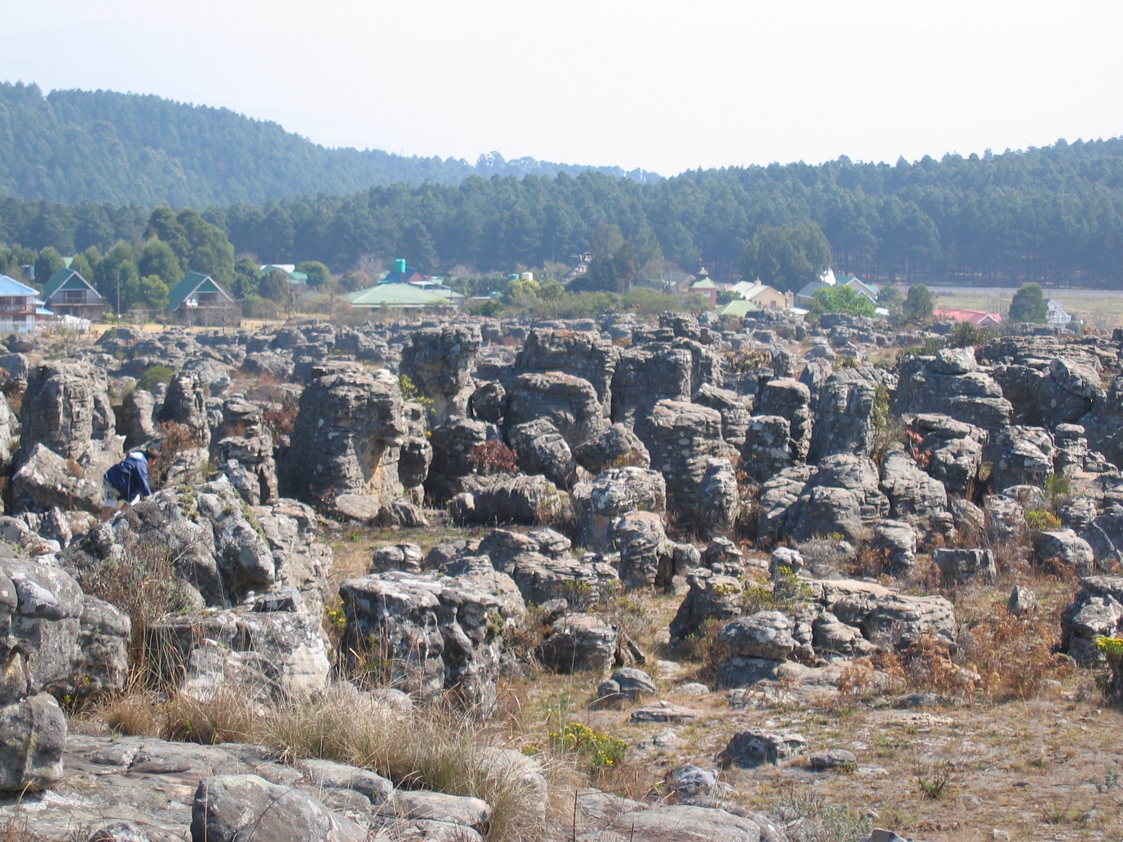 Eroded sandstone formations, overlooking Kaapsehoop village and the Berlin commercial pine plantations in the escarpment region of Mpumalanga Province, South Africa